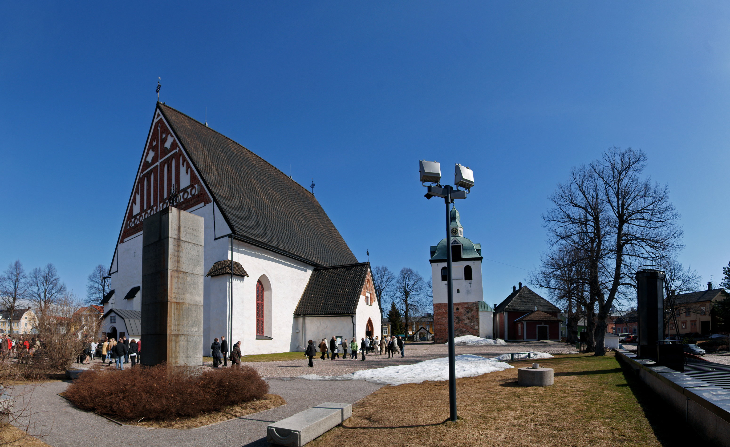 Porvoo Cathedral.